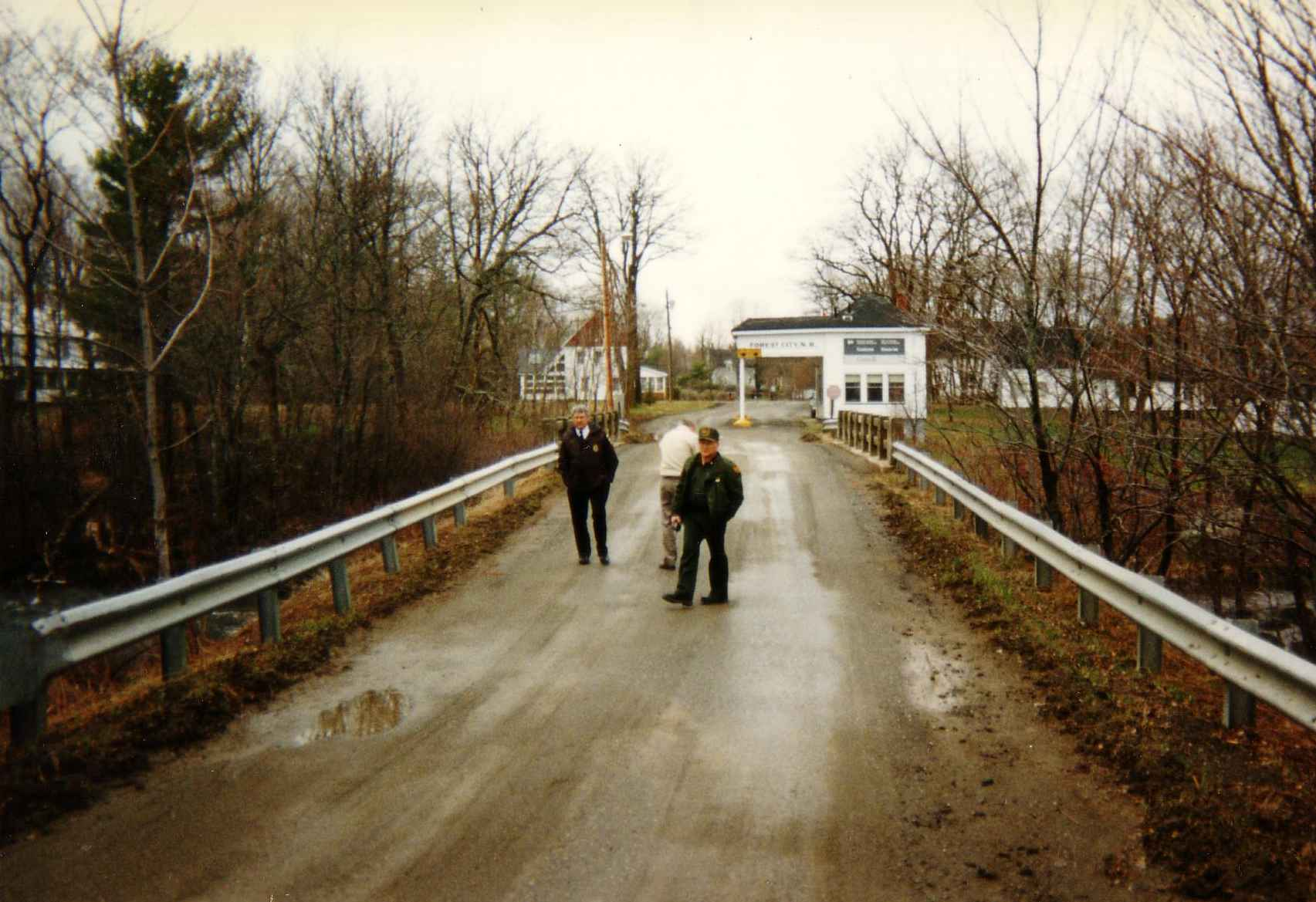 The Forest City International Bridge, looking north, as seen in 1996